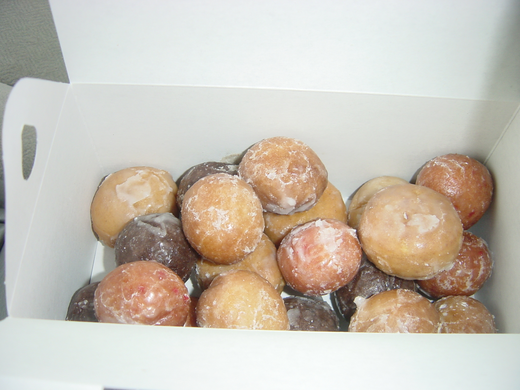 A variety box of Tim Hortons' TimBits donut balls